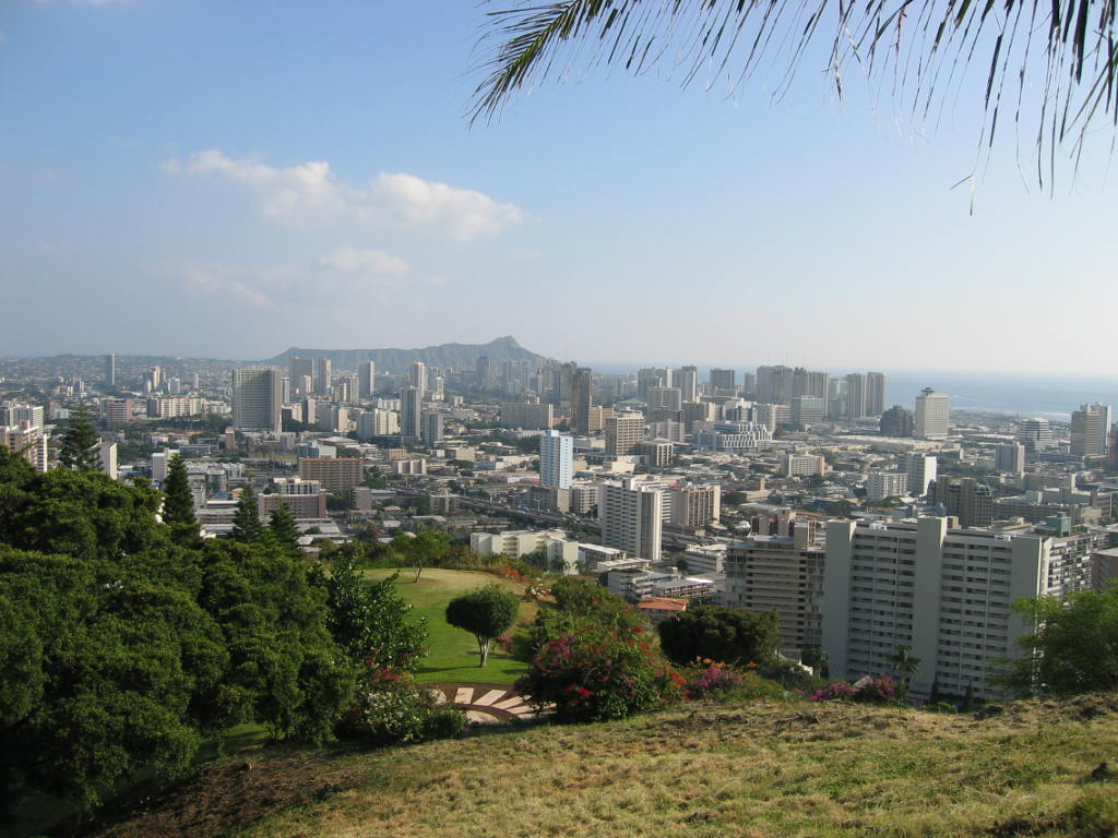 View of Honolulu, Hawai'i from the rim of Punchbowl Crater